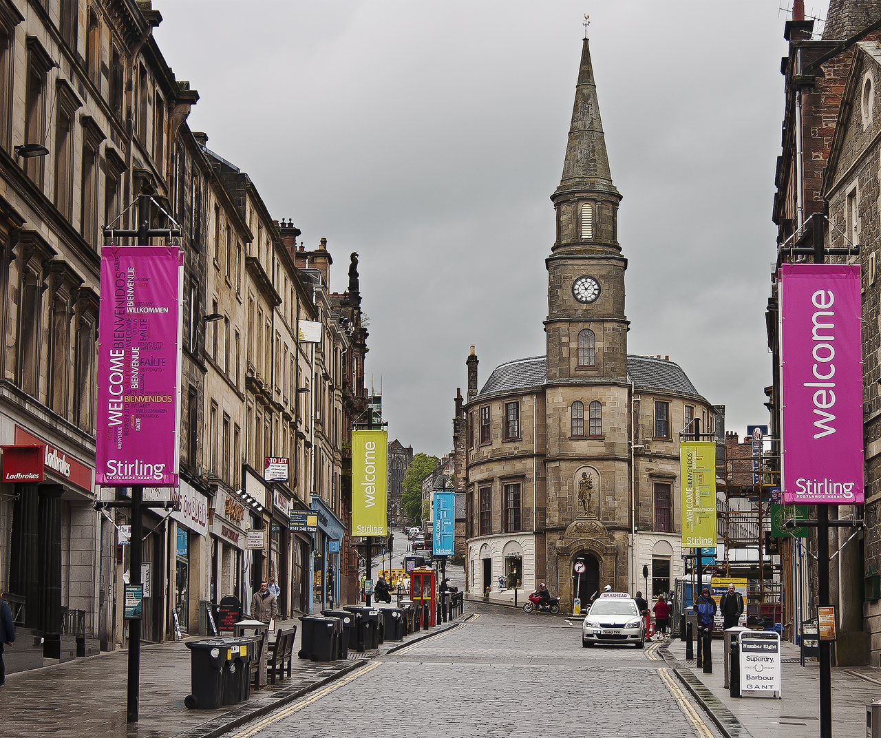 King Street, Stirling